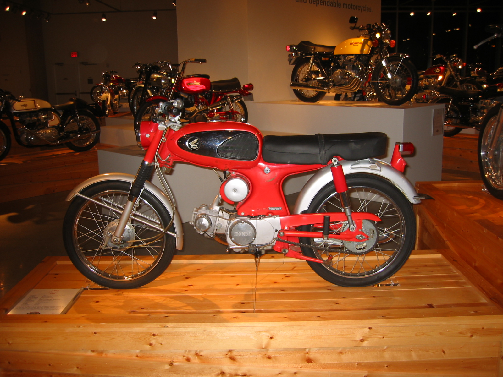 1965 Honda S90 @ Barber Motorsports Museum More Description is here